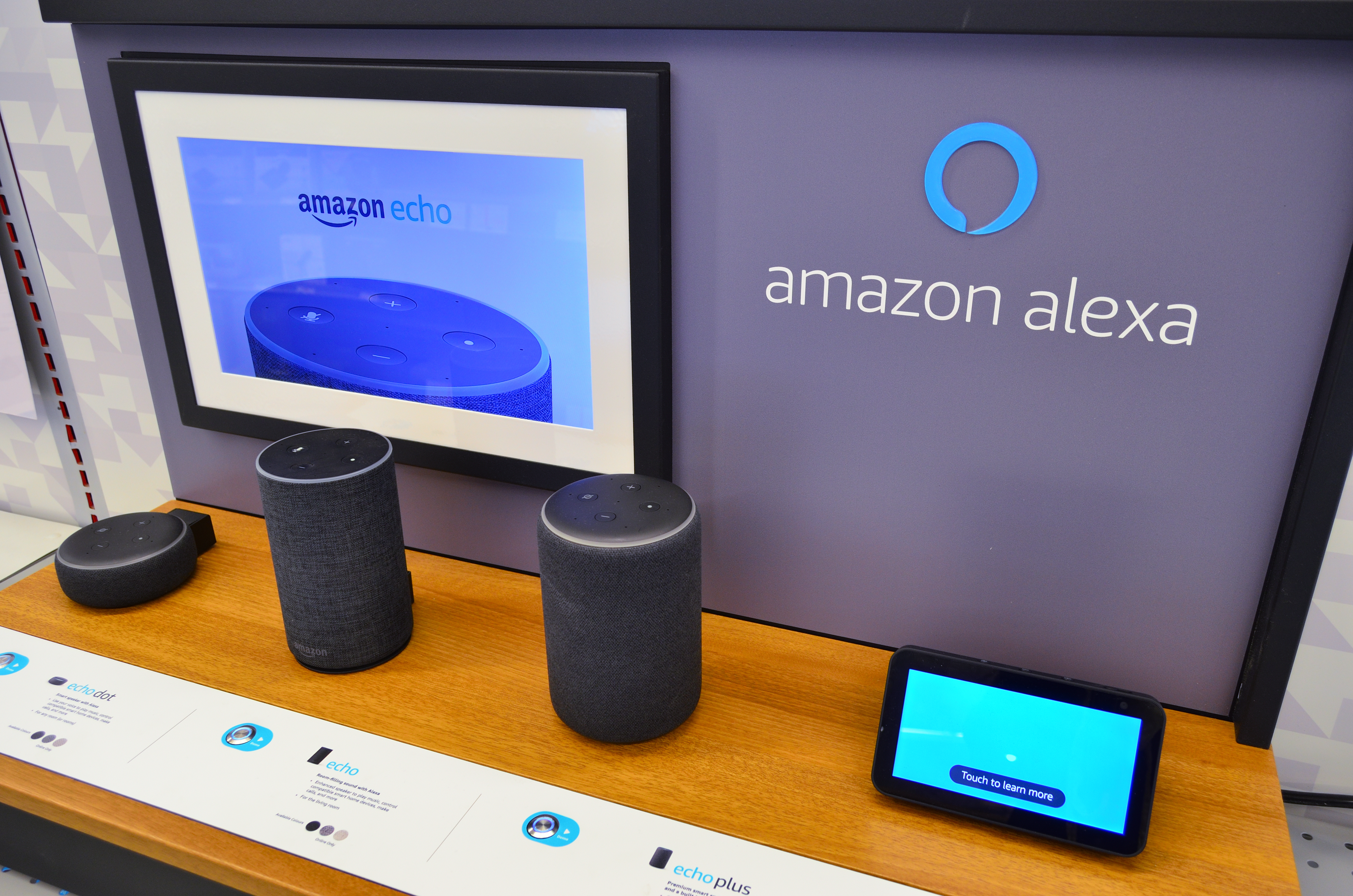 Amazon Alexa display booth